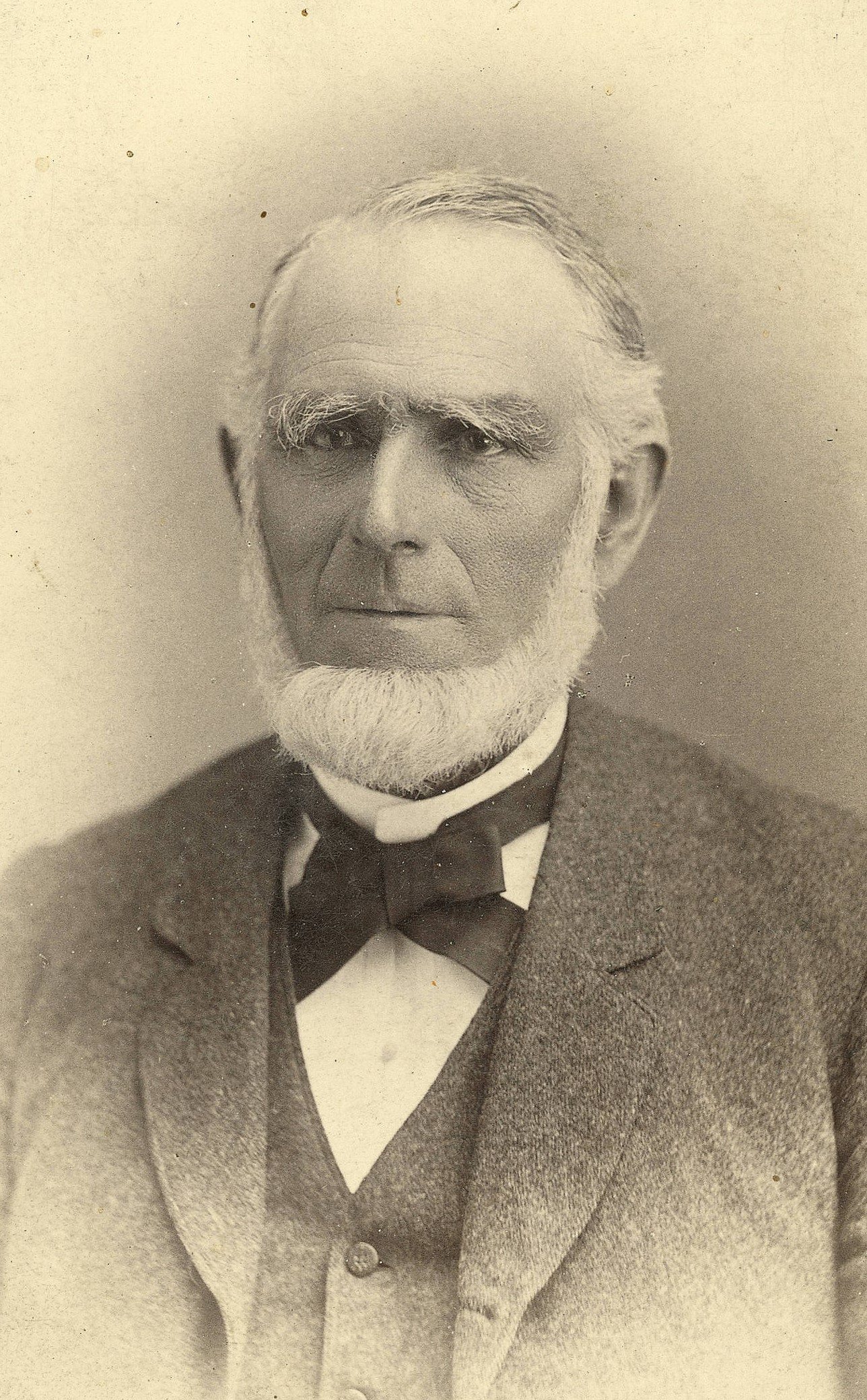 Abraham Owen Smoot. Albumen print, 4.25 × 6.5 in.